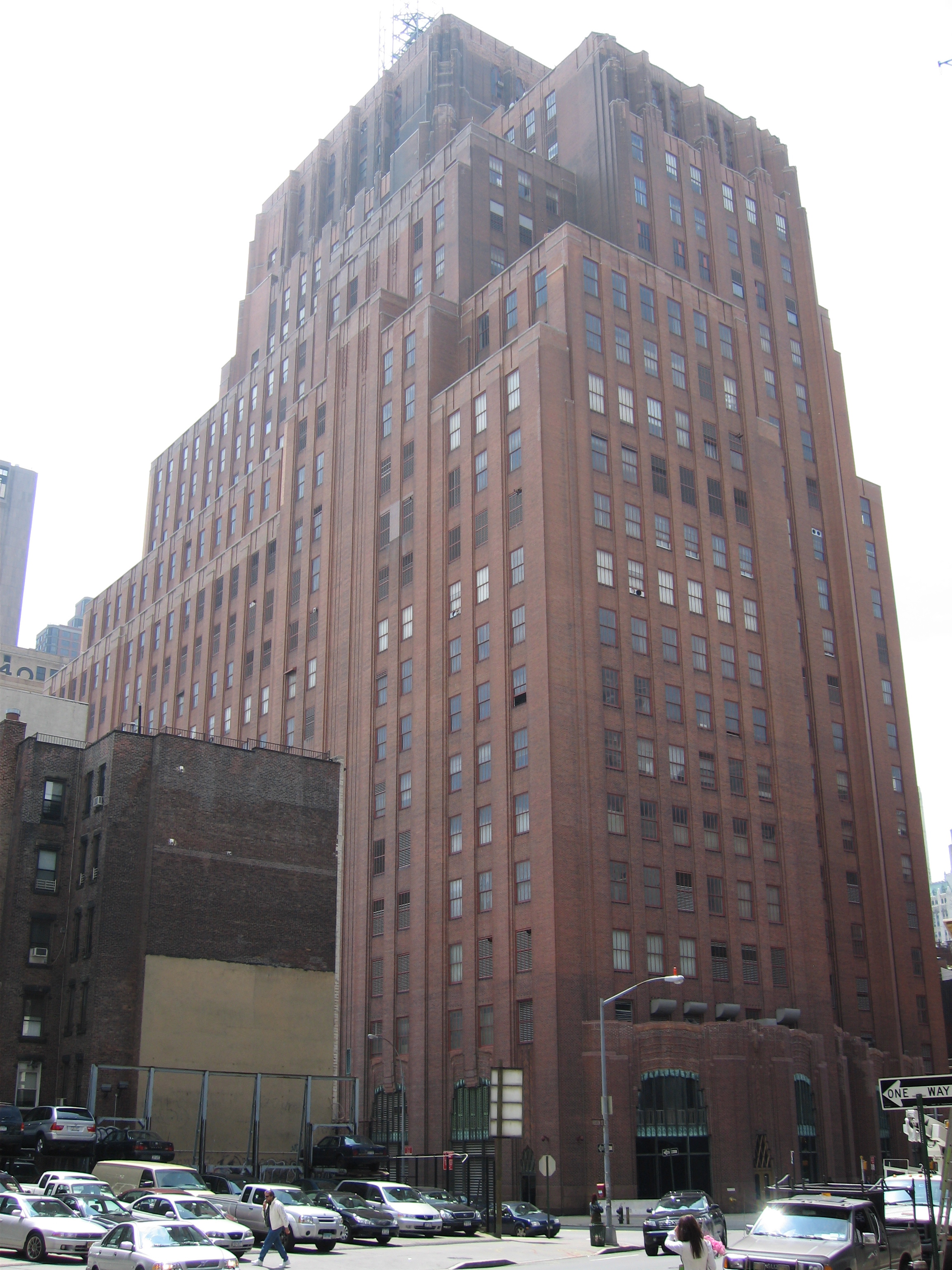 This is the 'telco hotel' at 60 Hudson - originally the Western Union building. There is probably more bandwidth in and out of this building than any other in the world.